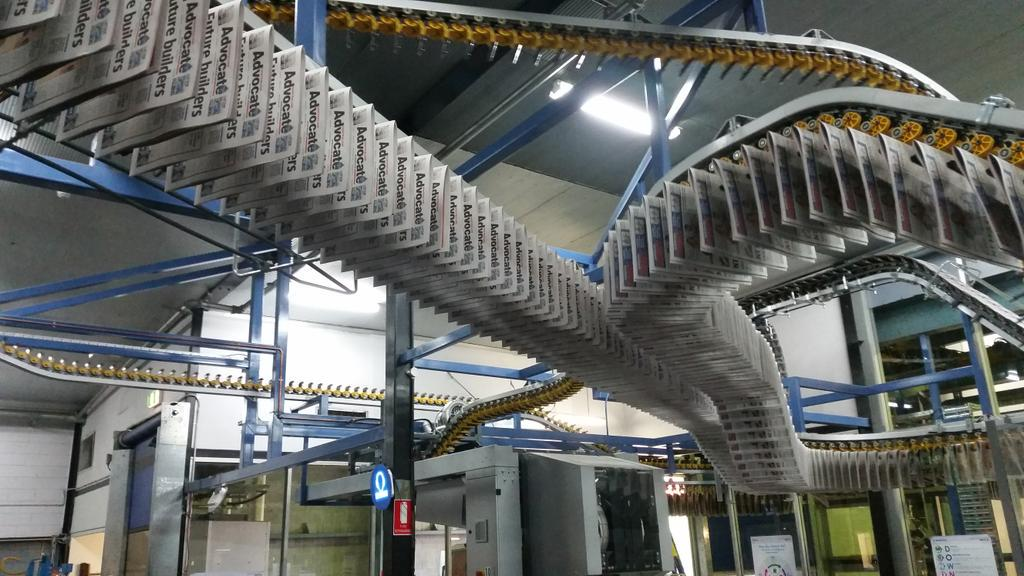 The Centralian Advocate being printed in Darwin.